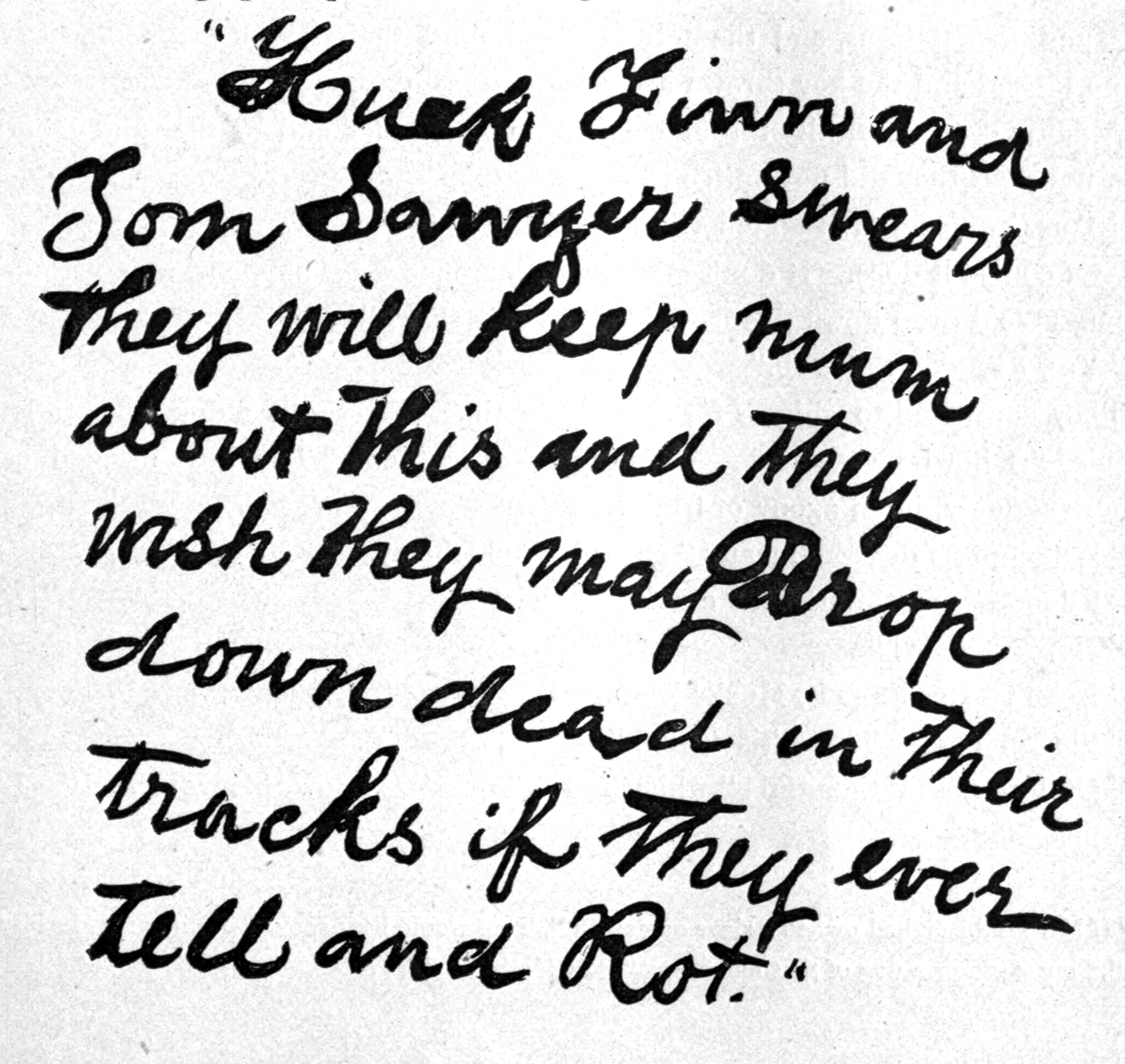 Scan of illustration from the book Adventures of Tom Sawyer, written by Mark Twain & illustrated by True Williams (Trueman W. Williams).